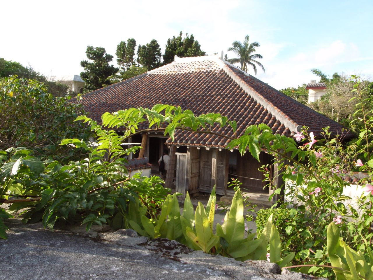 Miyara-dounchi (宮良殿内) - Old residence of noble men built in 1819, Ishigaki City, Okinawa, Japan